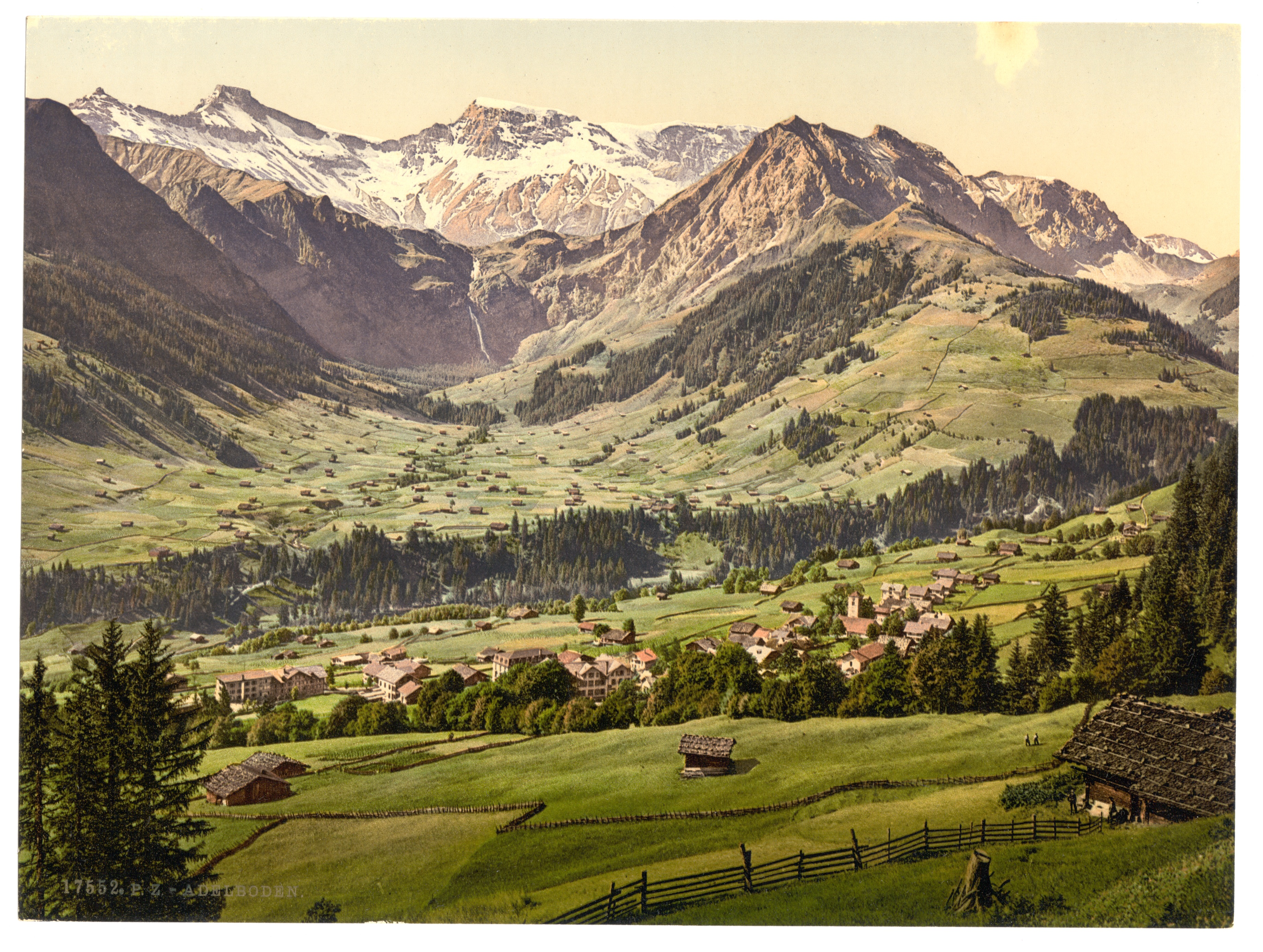 Print no. "17552".; Forms part of: Views of Switzerland in the Photochrom print collection.; Title from the Detroit Publishing Co., Catalogue J-foreign section, Detroit, Mich. : Detroit Publishing Company, 1905.